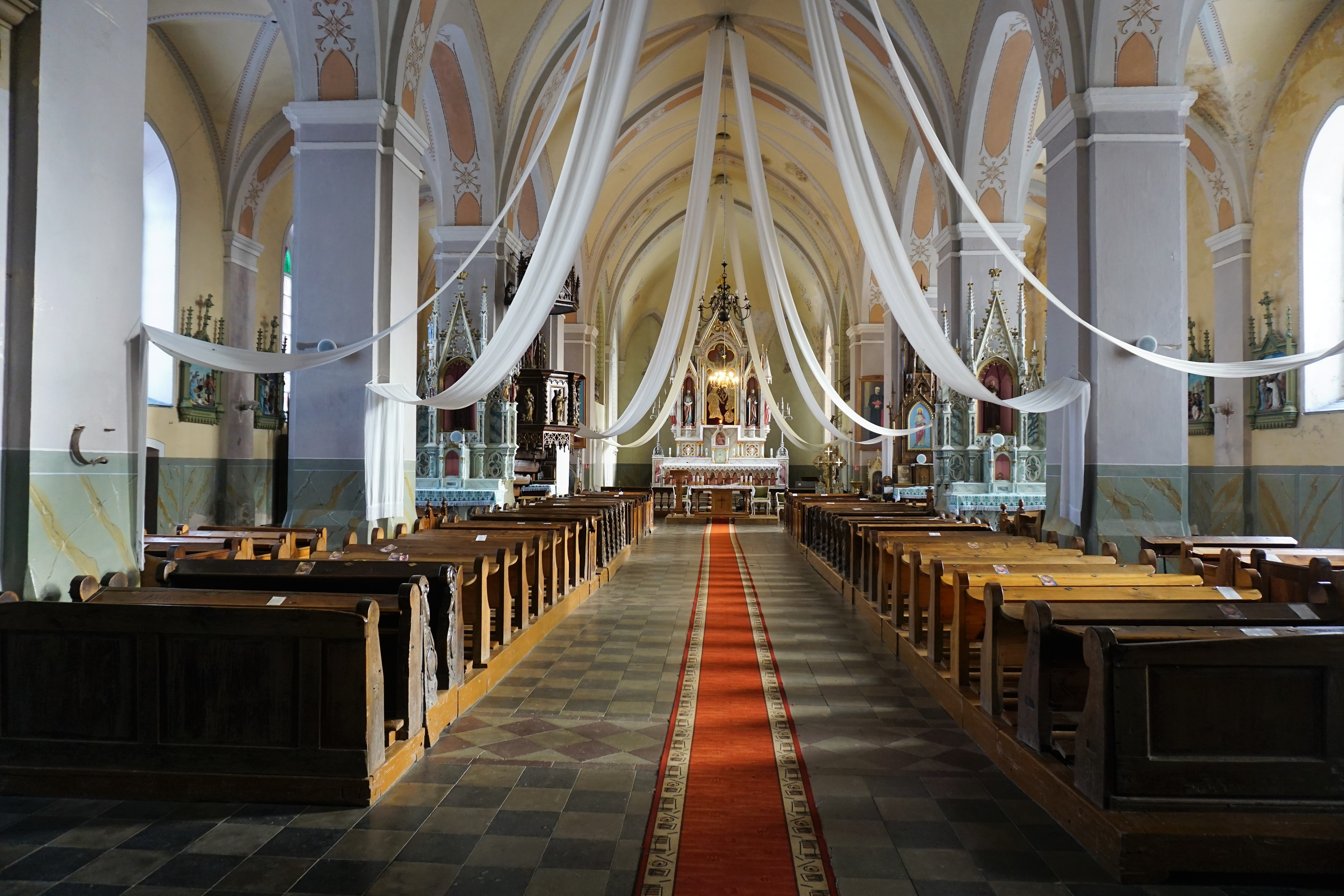 Interior of the Church of the Annunciation to the Blessed Virgin Mary in Ylakiai, Lithuania